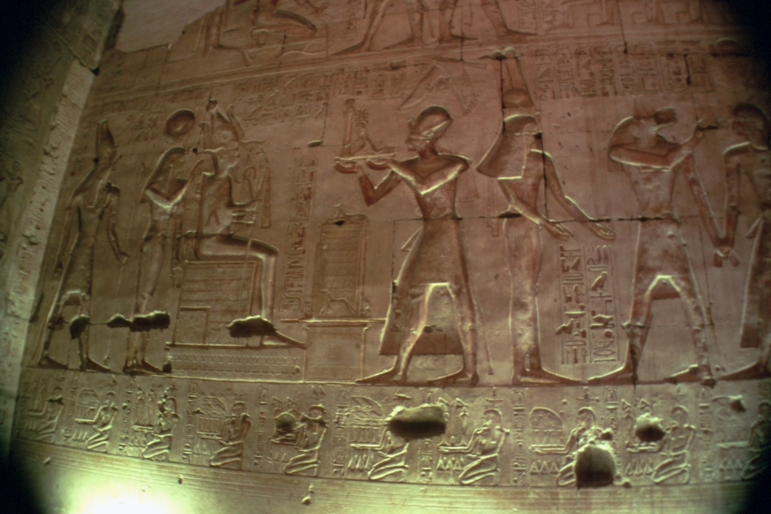 Picture taken April 2005 Temple of Sethos I.